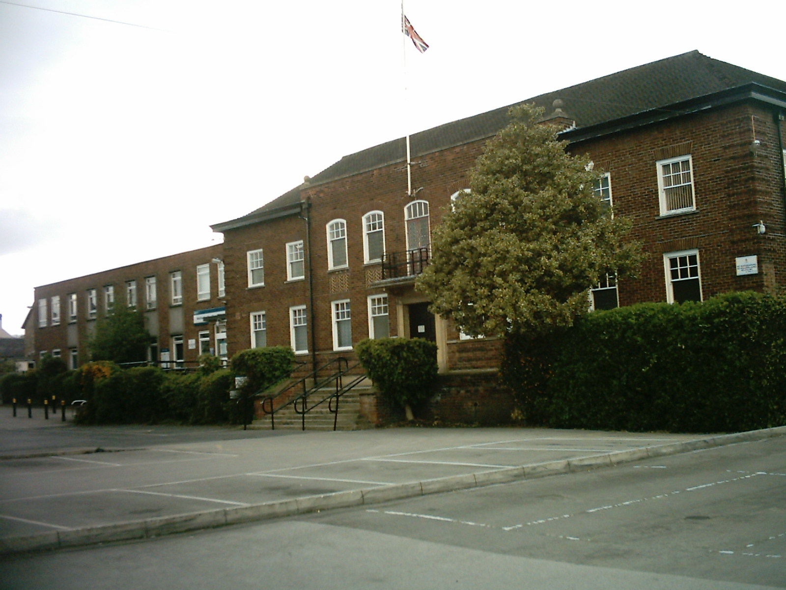 Council offices of Westgate in Wetherby, Leeds, West Yorkshire, UK. These were originally used by the council of the Wetherby Rural District, now by Leeds City Council. Note the balcony used for election counts. Taken on the evening of the 30th April 2009.